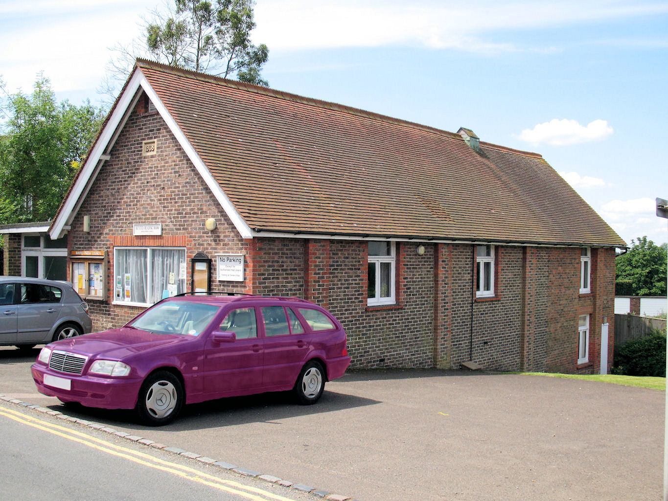 Buxted Parish Hall, East Sussex, England